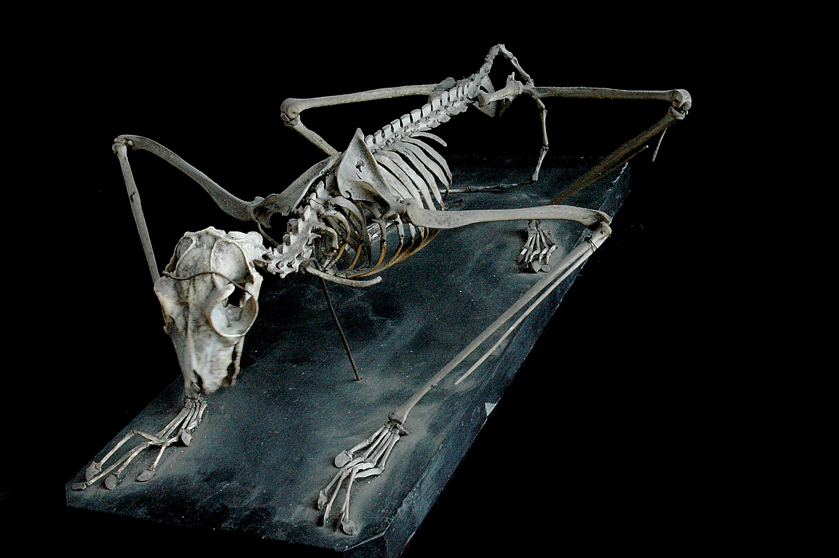 Skeleton of a Sunda colugo (Galeopterus variegatus)